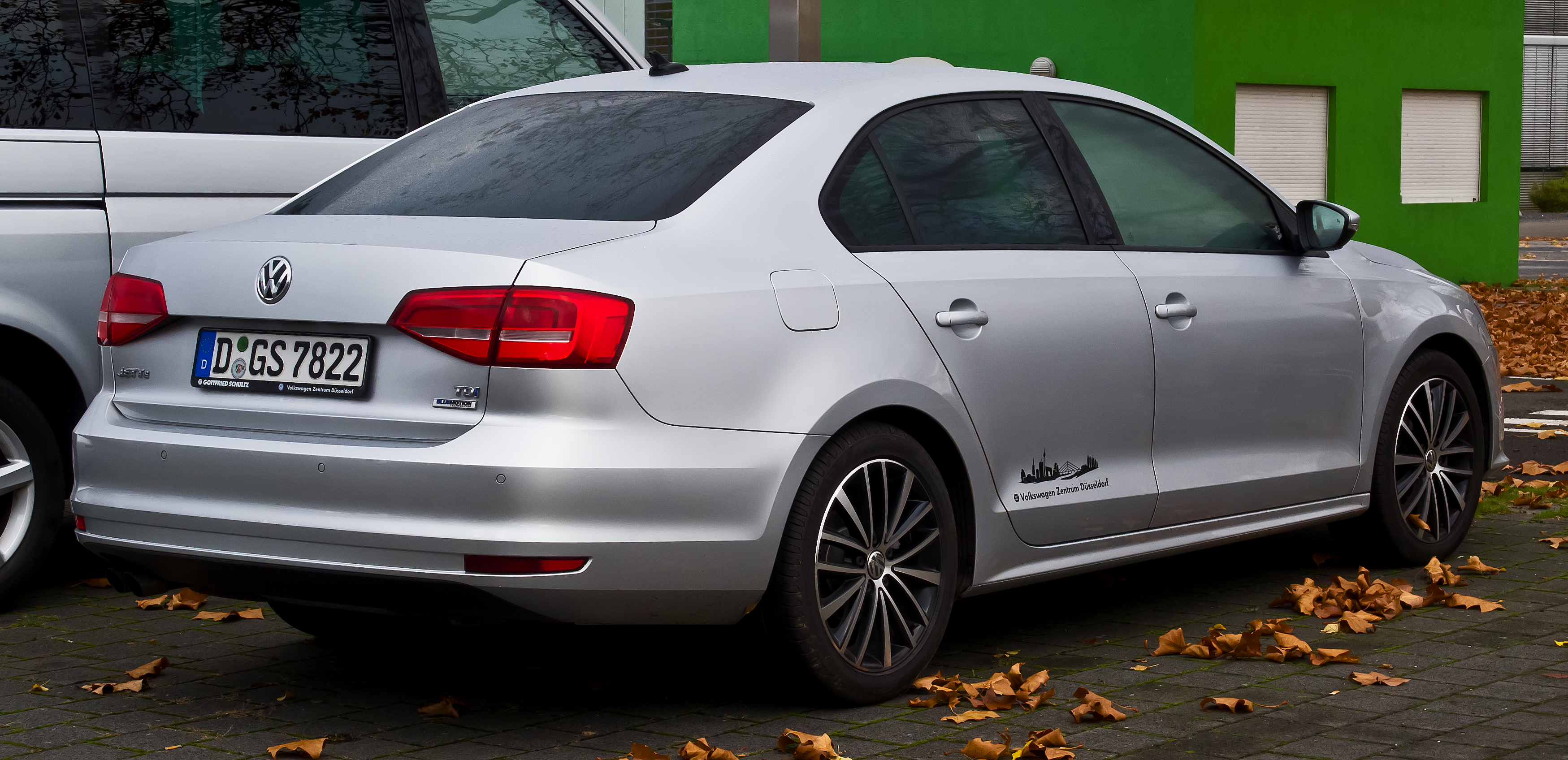 VW Jetta 2.0 TDI BlueMotion Technology (VI, Facelift)